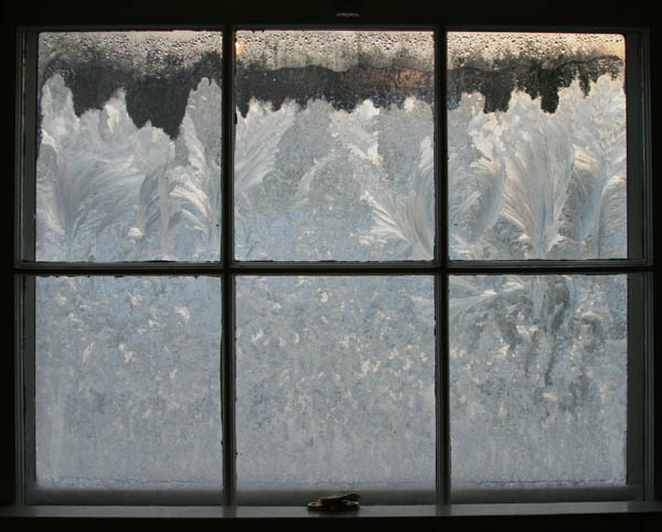 uploaded by photographer